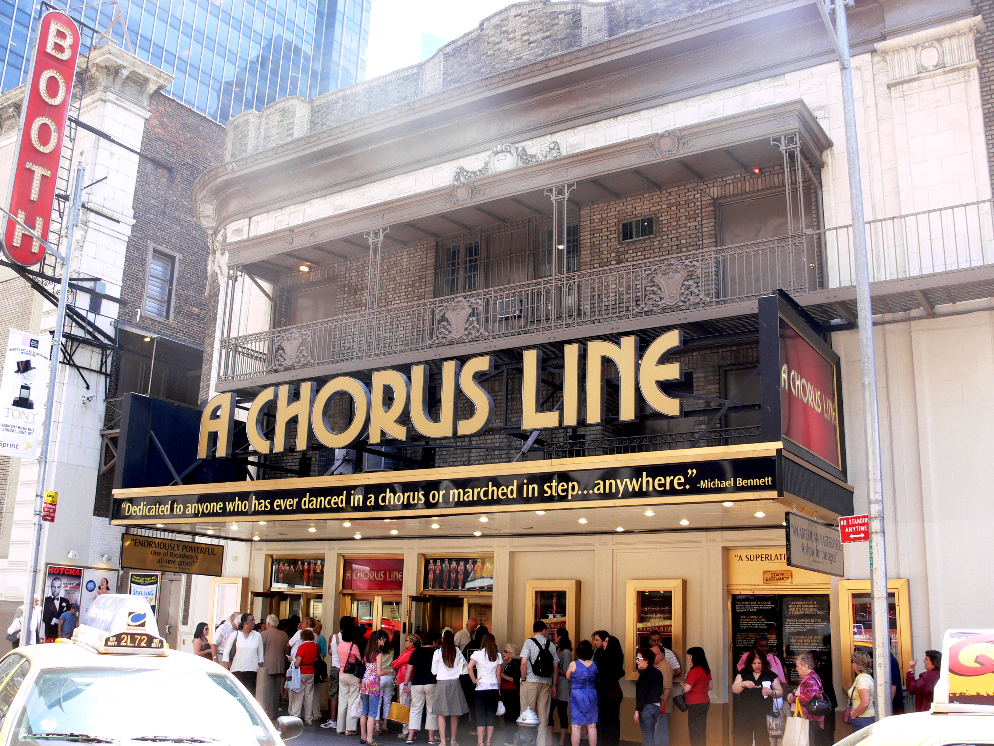 Gerald Schoenfeld Theatre, showing a revival of the musical A Chorus Line 236 West 45th Street, Manhattan, New York City